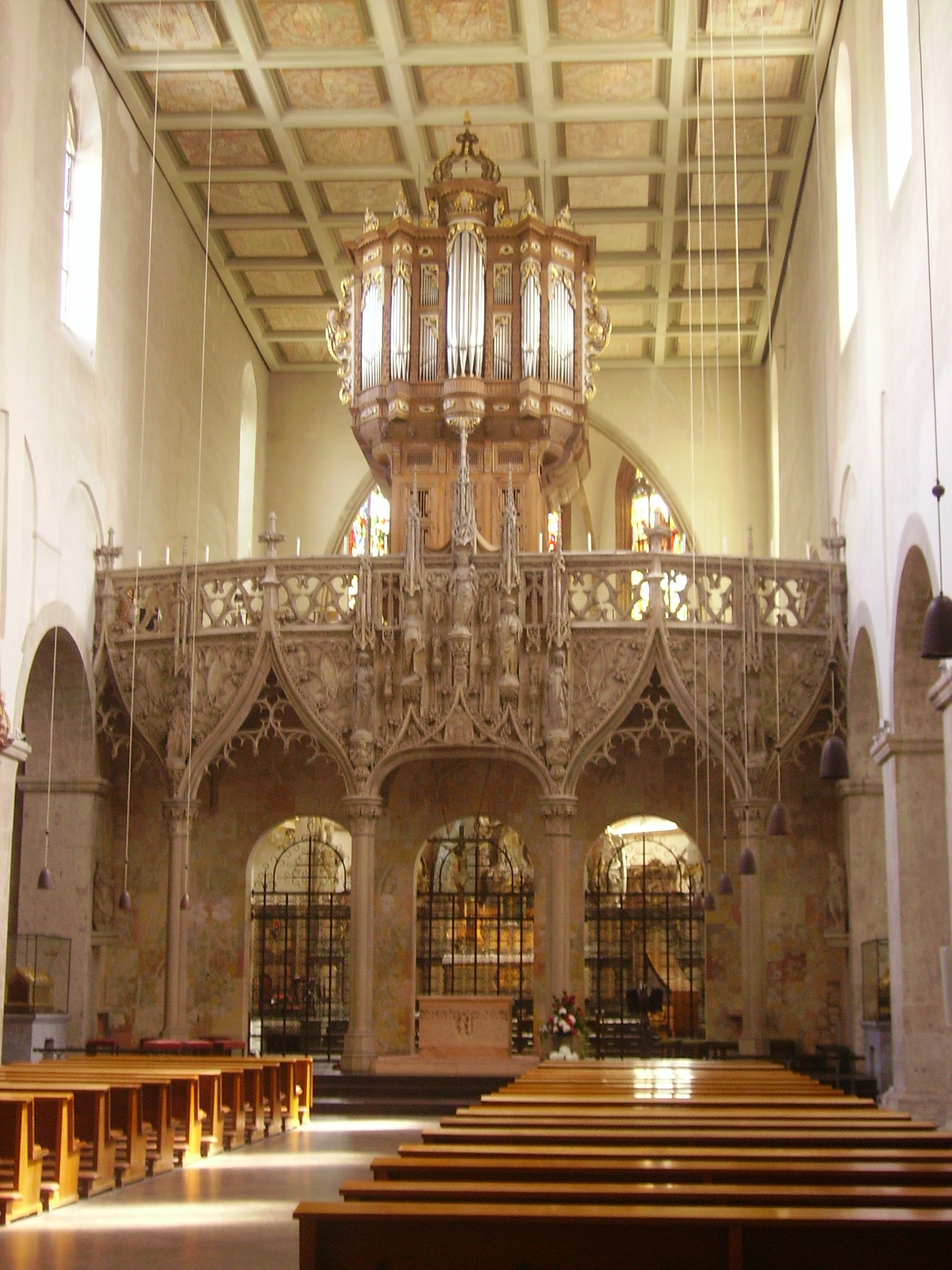 Jube of the catholic Church St. Pantaleon, Cologne